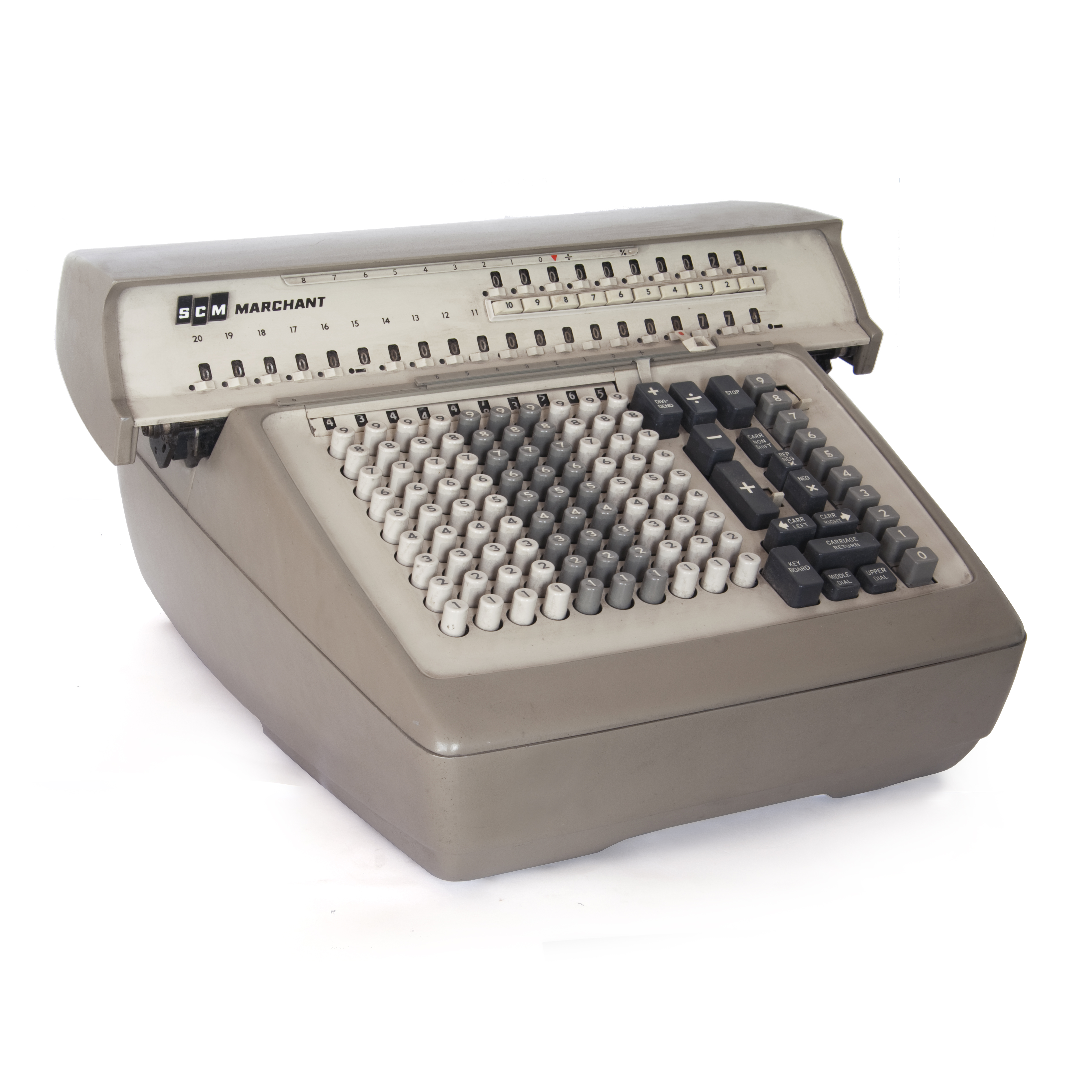 SCM Marchant electro-mechanical calculator. Probably a 1960's model, possibly an 8CM. Part of the University of South Australia collection.